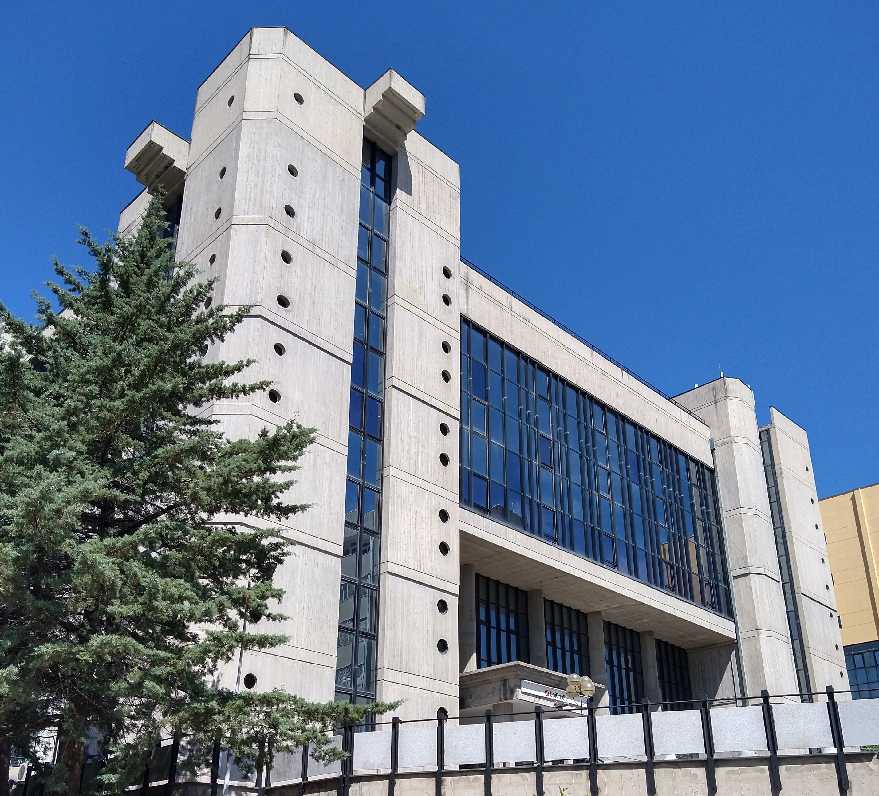 Right side of the Former Palace of Banca Popolare di Pescopagano in Potenza, Italy